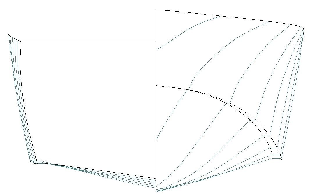 Stations of a planing boat.